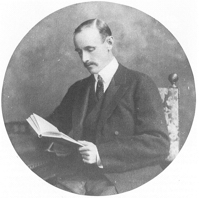 Lord Hopetoun reading in 1902